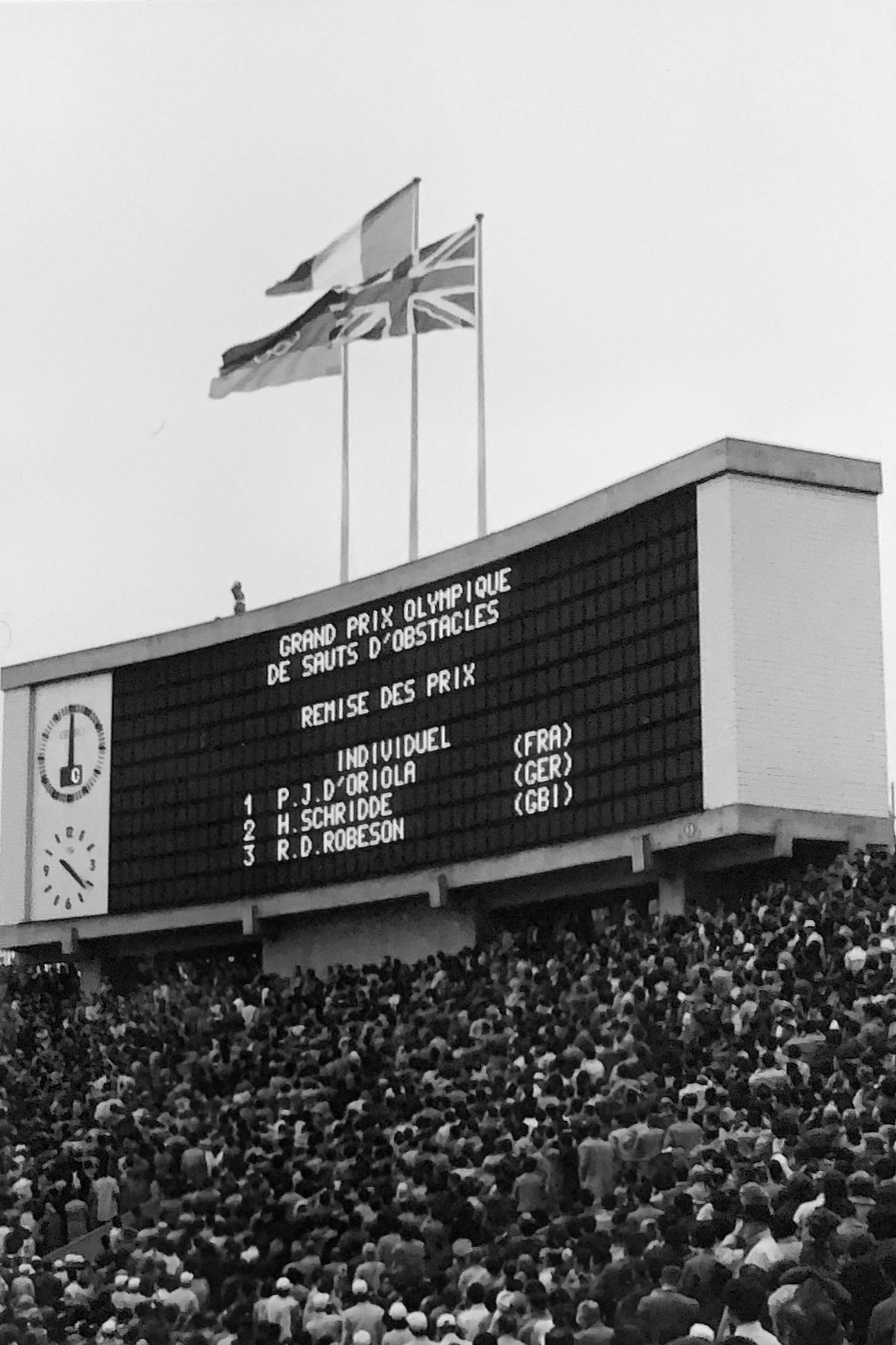 Japan National Stadium Electronic Bulletin Board (1964)